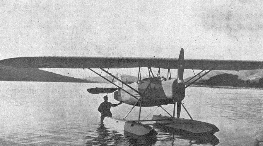 SIM-XII H photo from L'Aerophile June 1938